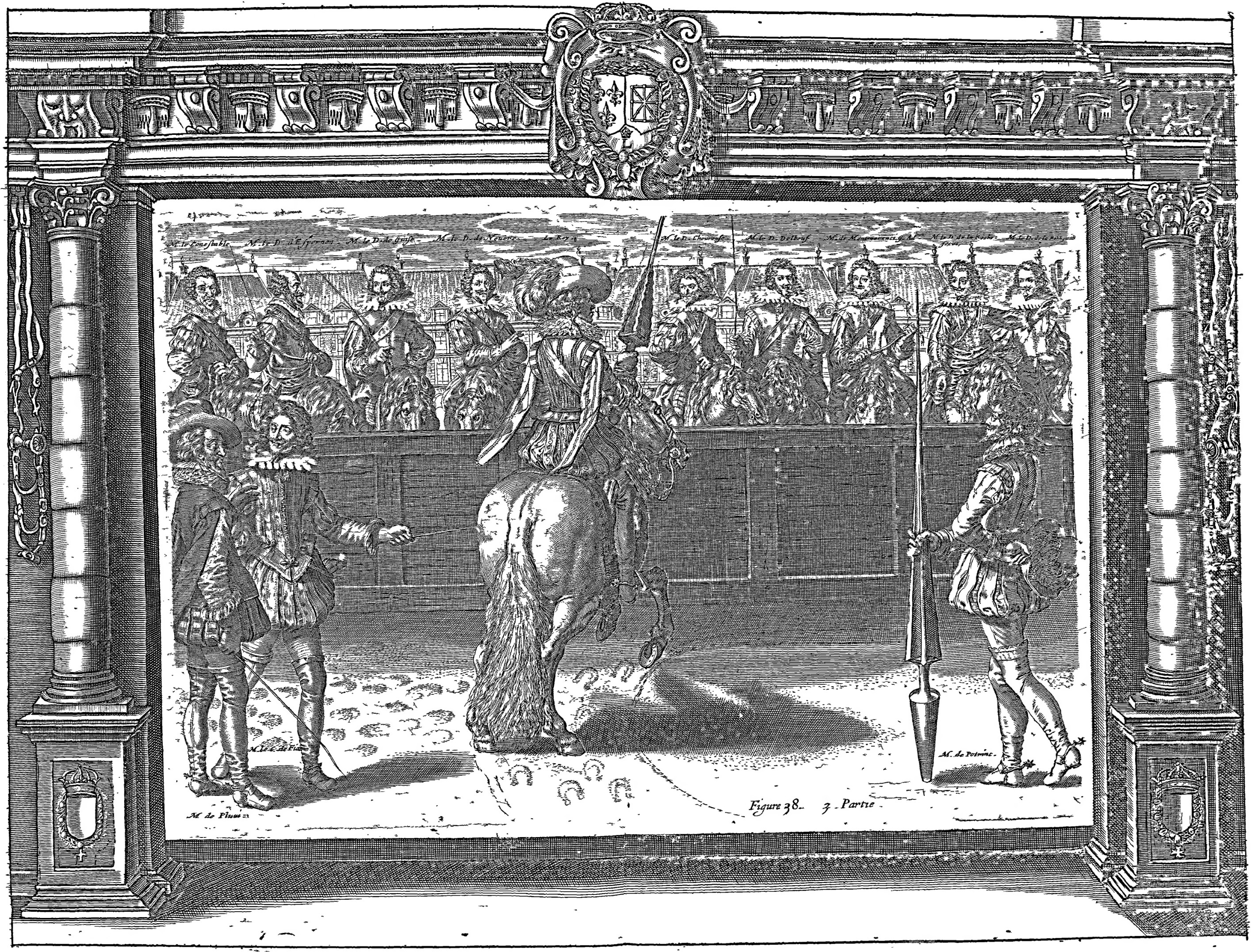 Illustrations from "L'instruction du Roy en l'exercice de monter à cheval" by Antoine De Pluvinel